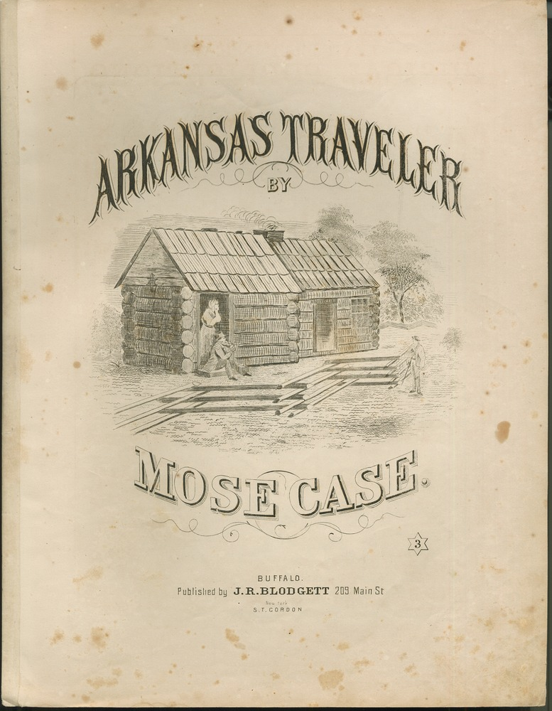 Sheet music cover for Arkansas Traveler by Mose Case, c. 1863